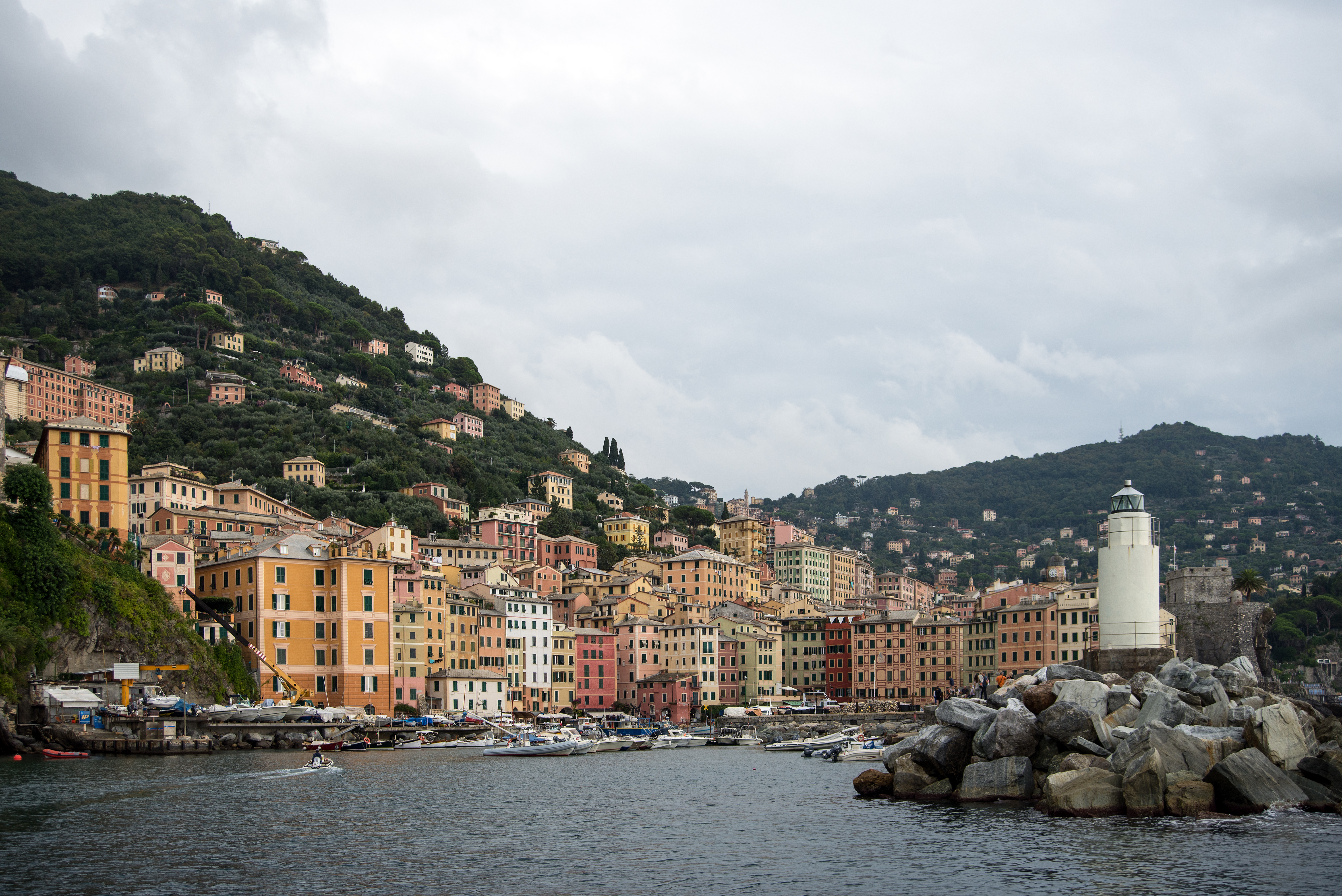 Camogli, Genoa, Italy - September 8, 2013